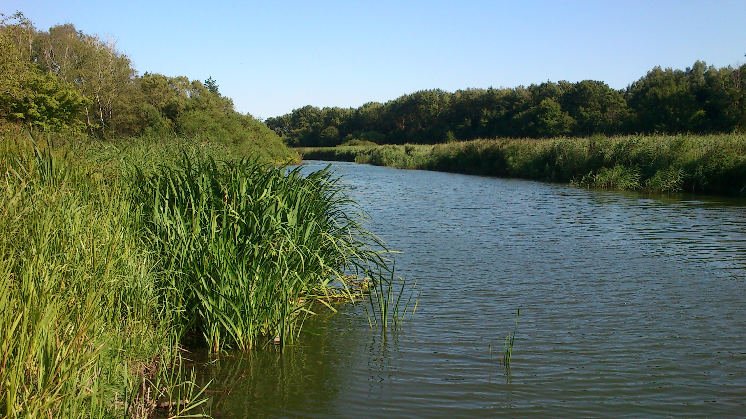 The Aarhus stream along the Brabrand path.